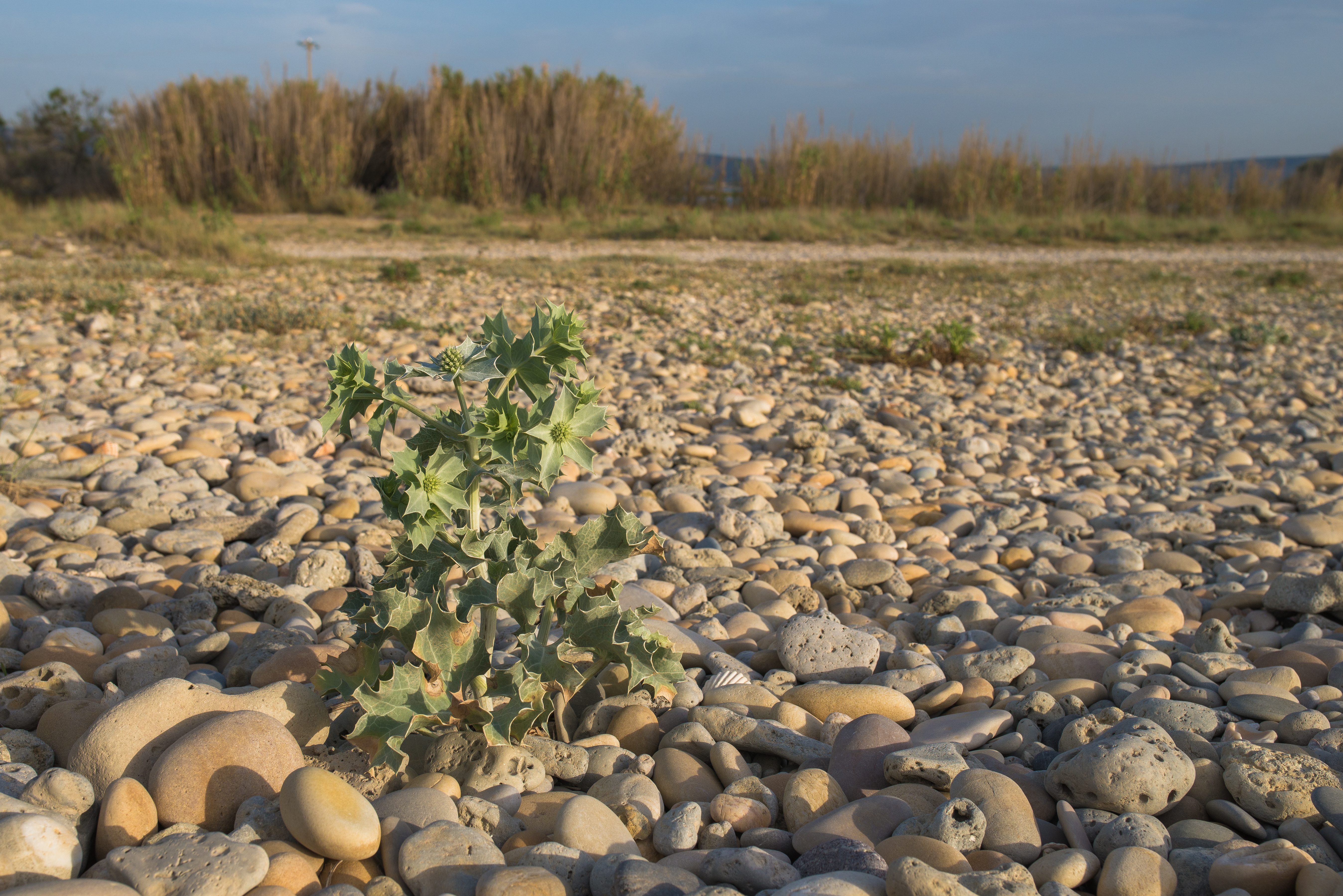 Eryngium maritimum (Sea holly ) on the beach. Plant with buds, size: 35cm.